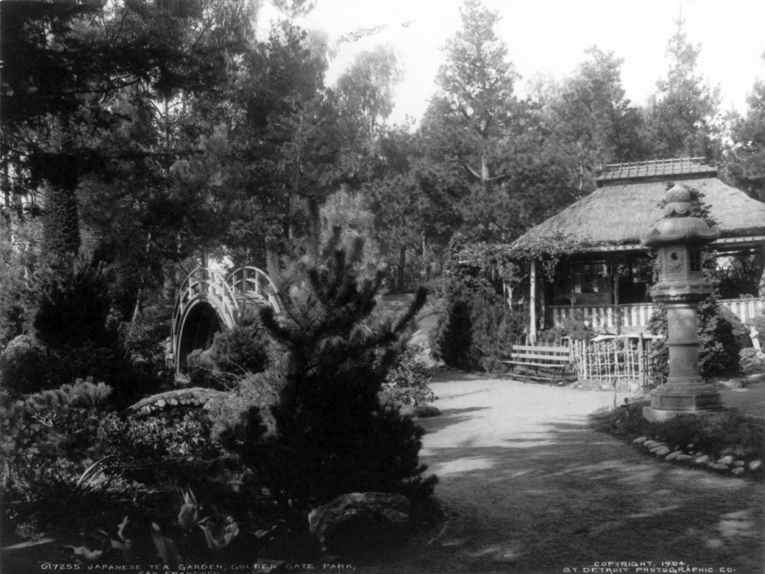 Japanese Tea Garden, San Francisco, California